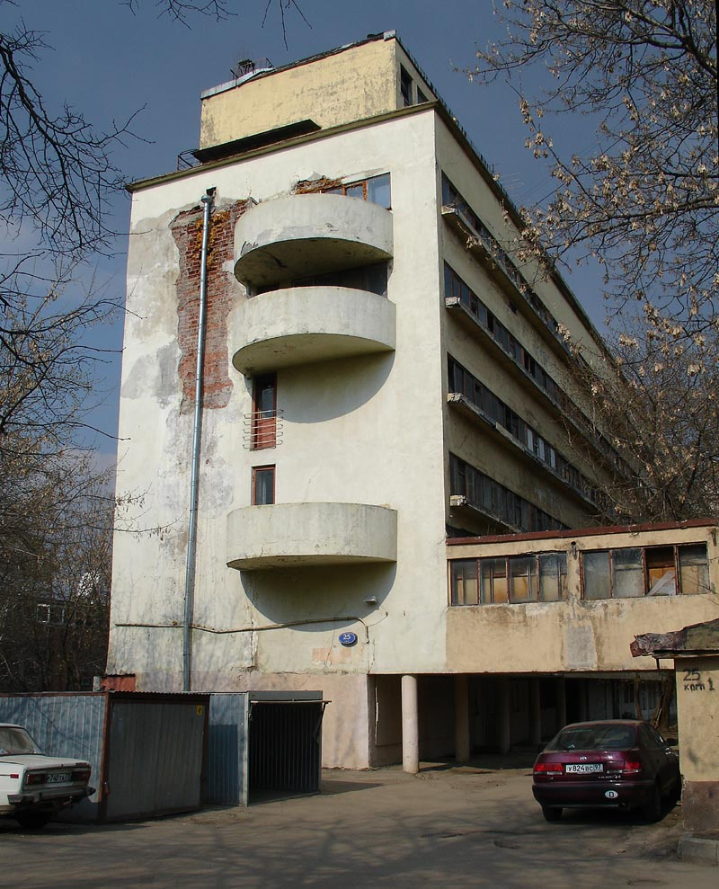 View from south of the Narkomfin Building — Constructivist Style architecture in Moscow. Some residents still living there, in March 2007.